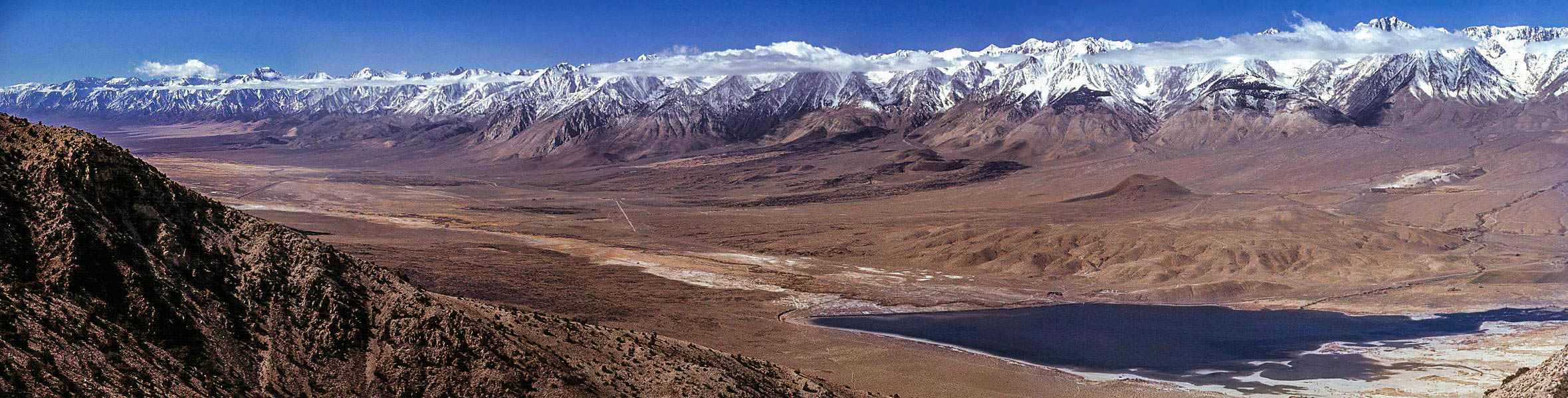 Owens Valley, eastern California, and the eastern escarpment of the Sierra Nevada mountain range. The view is looking southwest from the Inyo Mountains near Harkless Flat. Tinemaha Reservoir is visible in the near distance. There is an old cabin and an old mining trail owned and still claimed here at Harkless Flat.